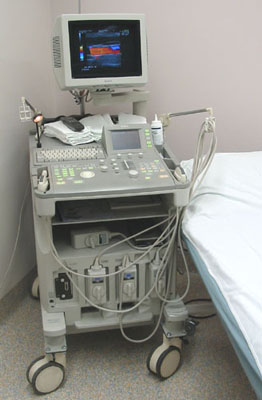 Medical Ultrasound Scanner By Daniel W. Rickey 2006